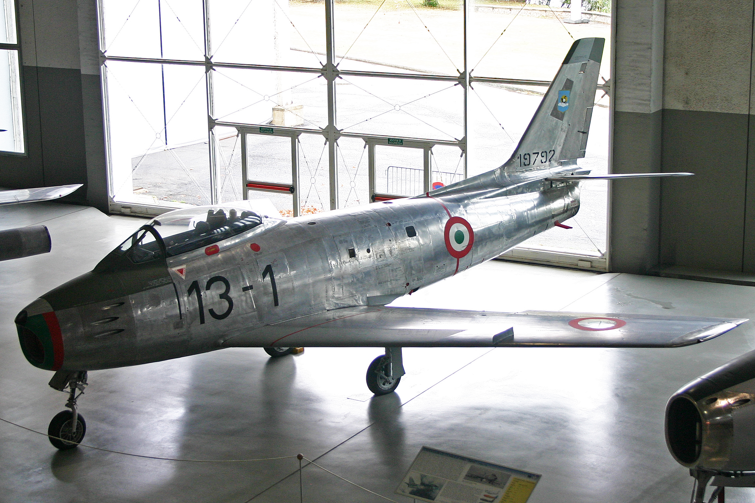 Displayed in Hangar SKEMA. A Canadian built Sabre, previously in RAF service as XB915. msn 692.